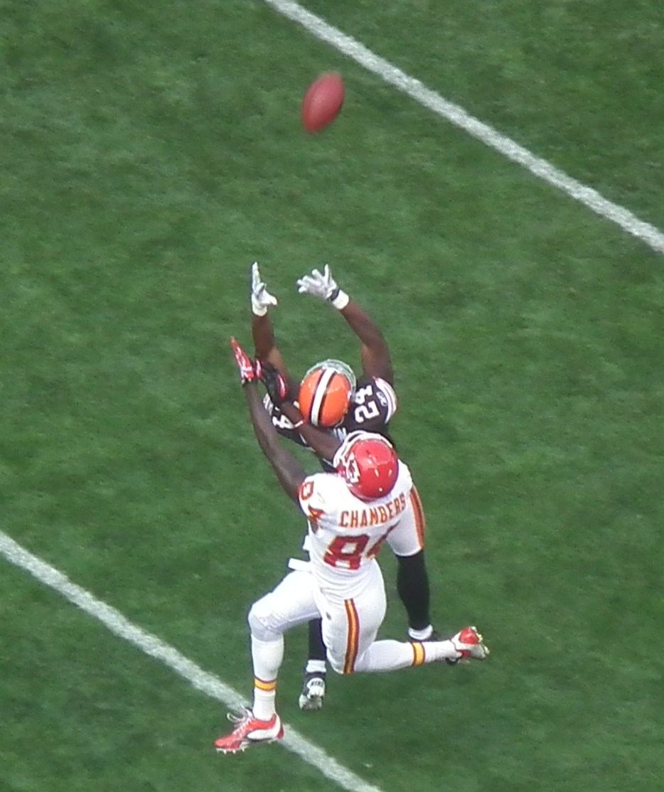 Sheldon Brown of the Cleveland Browns intercepts a pass vs. Chris Chambers of Kansas City Chiefs